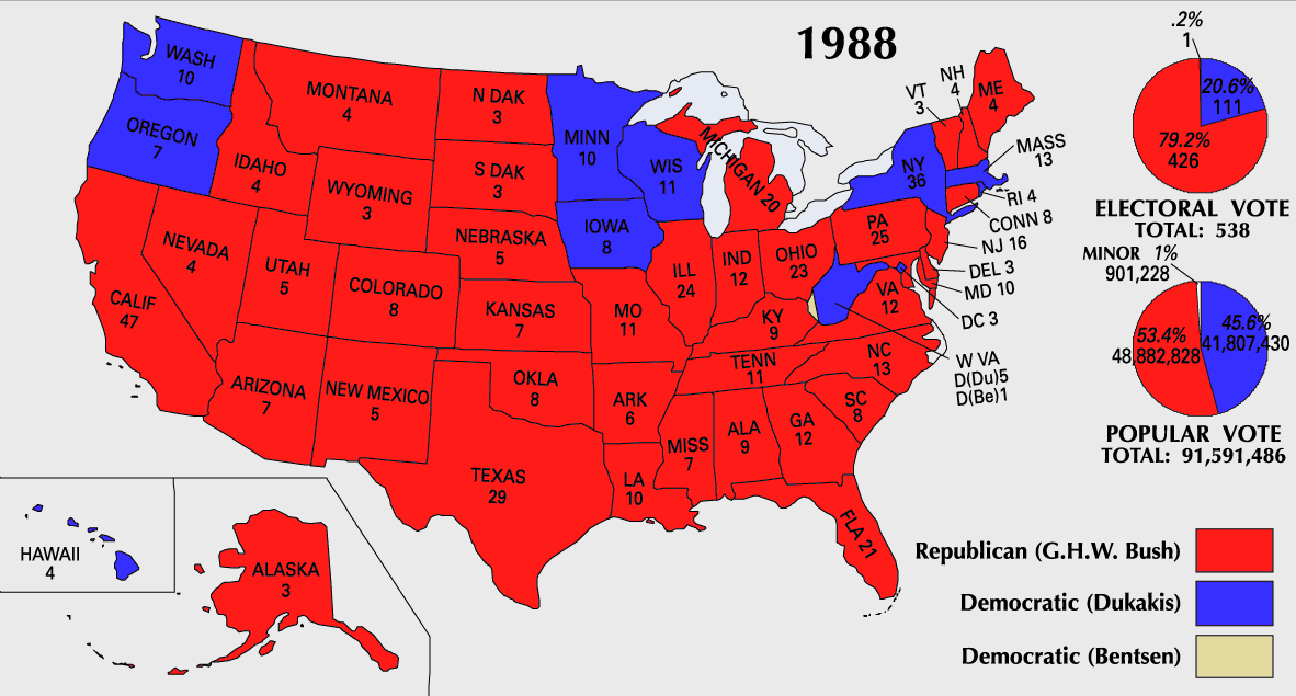 1988 Electoral College Map